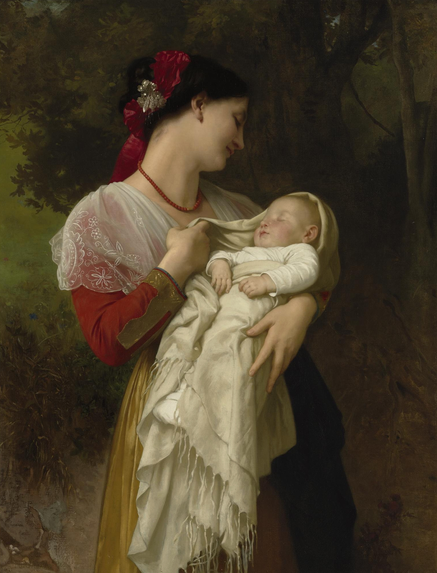 William-Adolphe Bouguereau (1825-1905) - Maternal Admiration (1869)